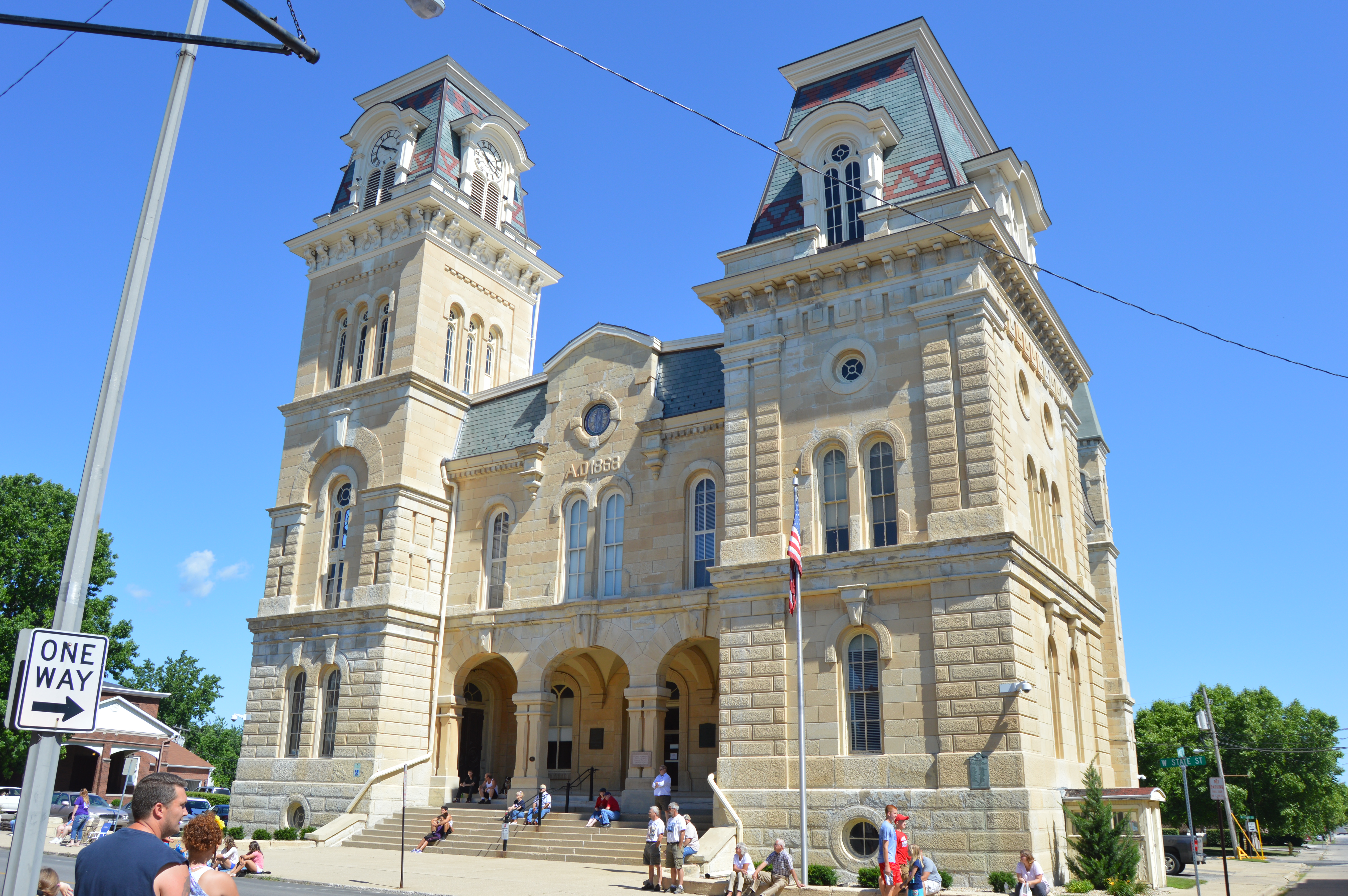 Front and eastern side of the Morgan County Courthouse, located at 300 W. State Street in Jacksonville, Illinois, United States. Built in 1868, it is listed on the National Register of Historic Places.